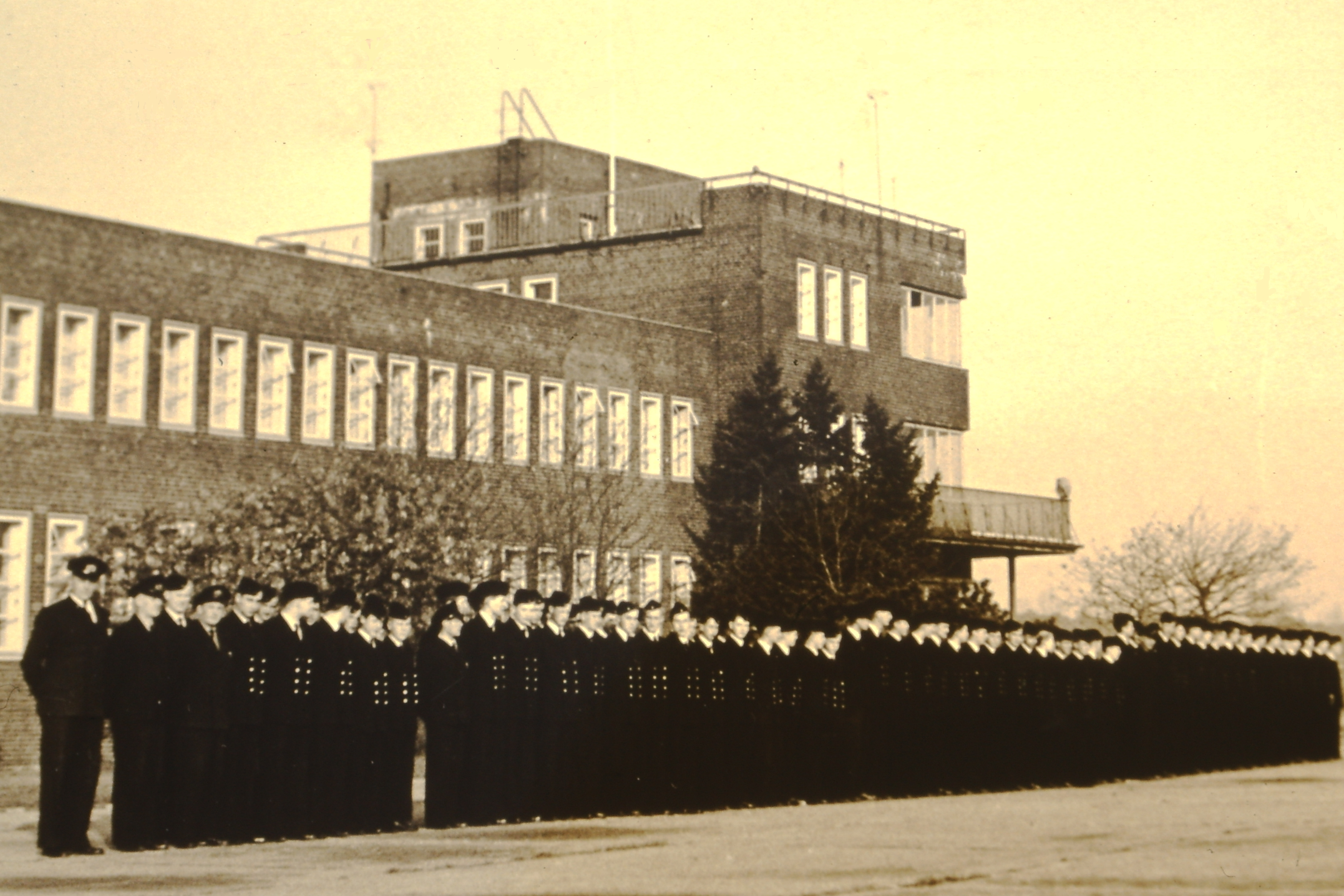 The guards are lined up outside the school starting in uniform - in autumn 1955